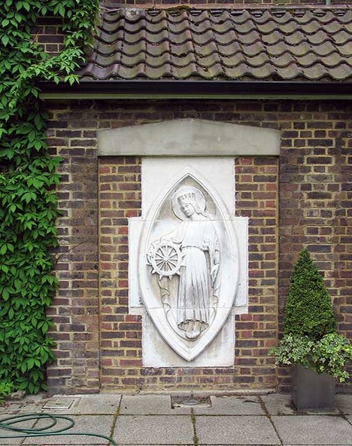 Sculpture of St Katharine at Royal Foundation of St Katharine, Butchers Row, London E14